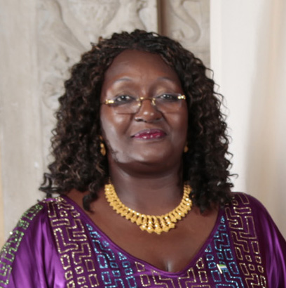 First Lady Sia Koroma of Sierra Leone in 2009